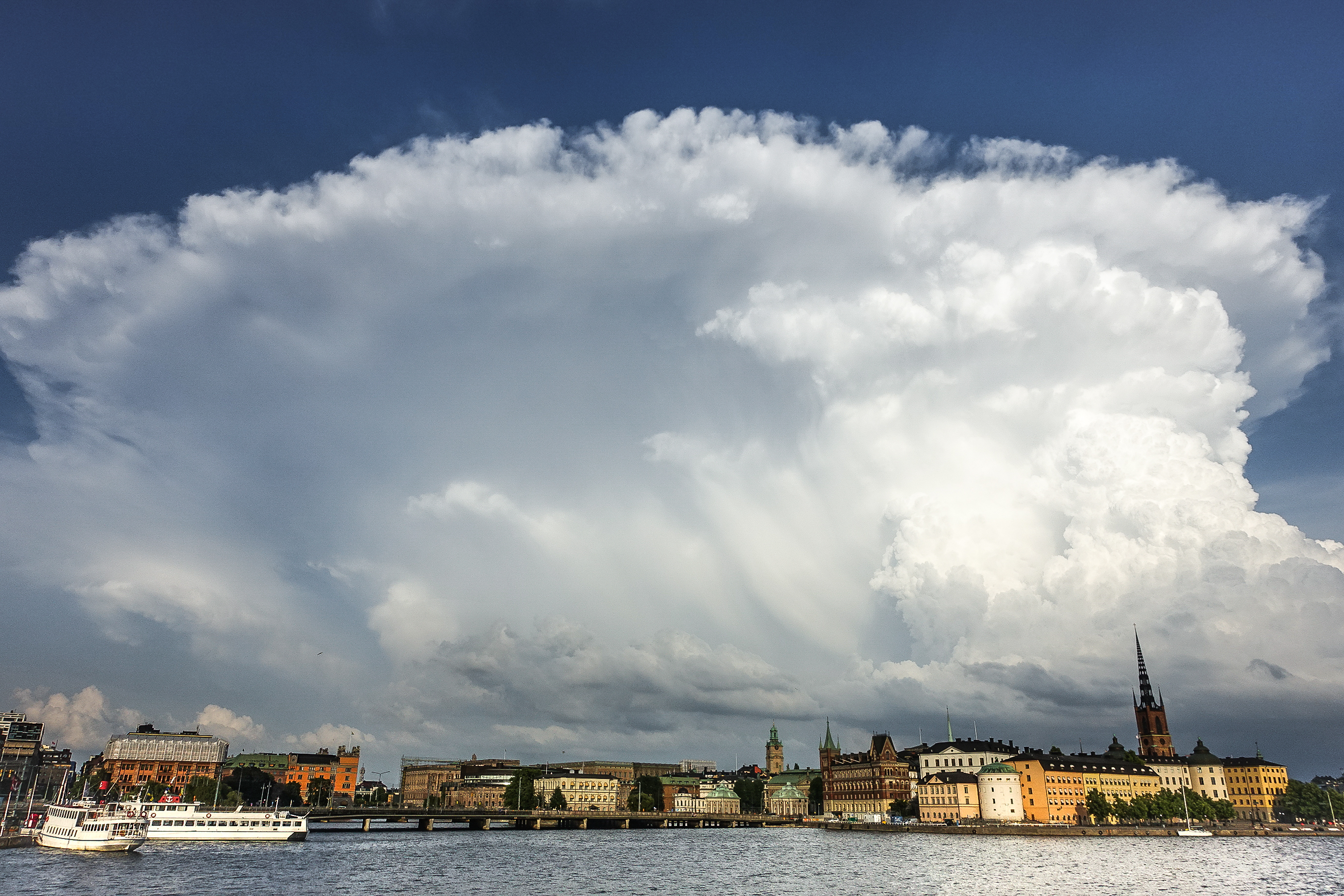 Cumulonimbus capillatus, Stockholm August 2, 2018.